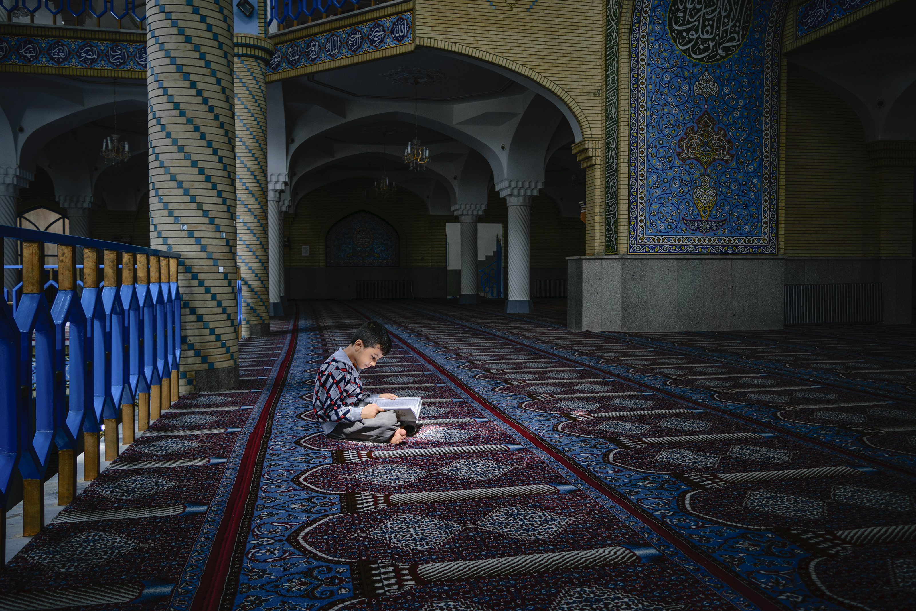 Boy reading a book in Dar ul-Ihsan Mosque, Sanandaj, Kurdistan Province, Iran